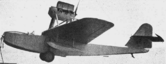 The single Dornier Do 12 floatplane.